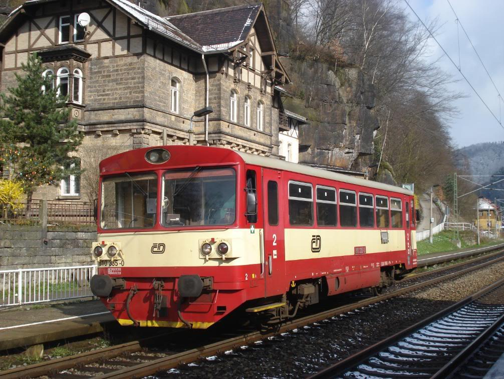 A picture of the train which currently travels on the 098 route from Děčín.